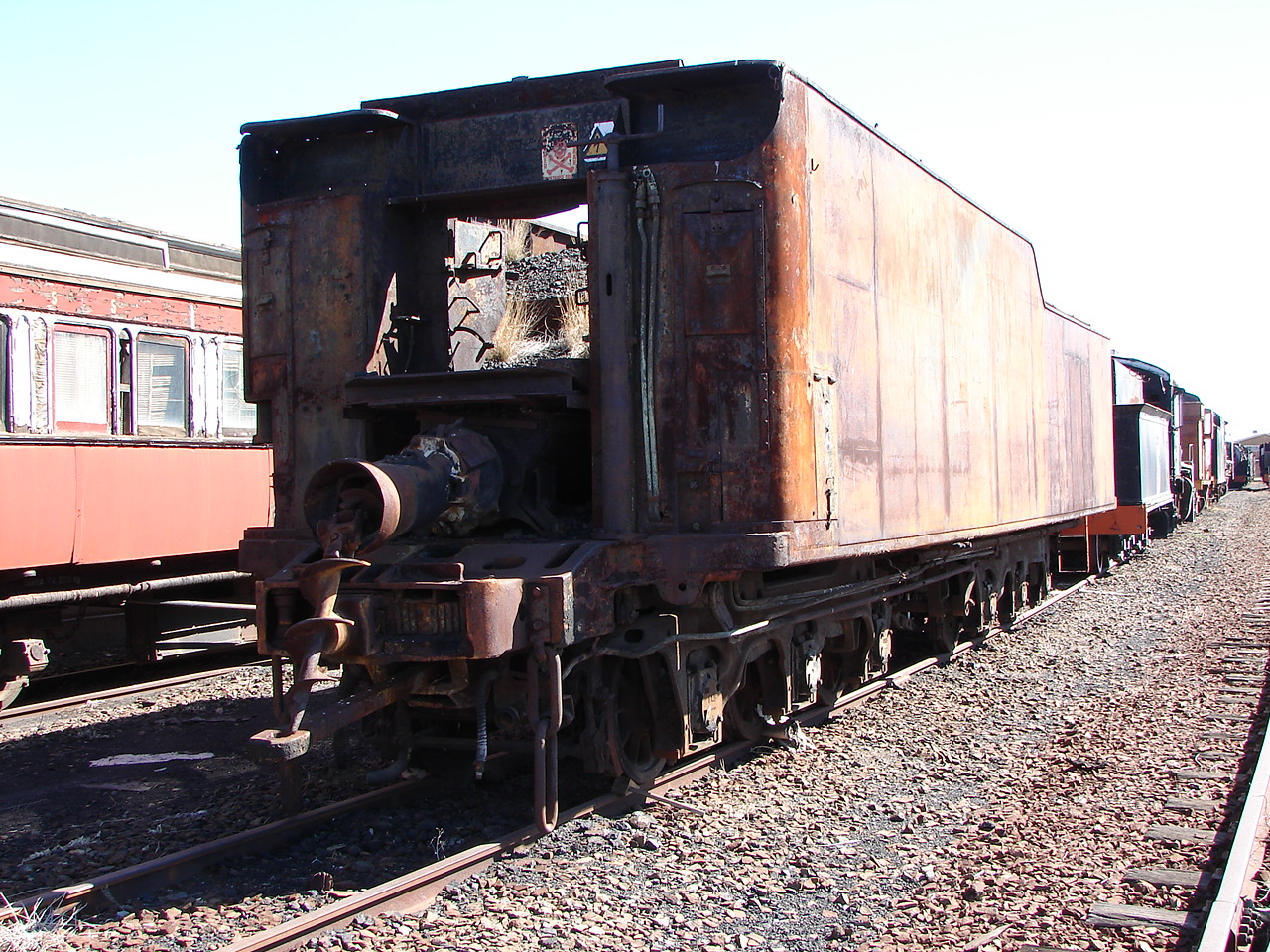 Class 25NC locomotive's Type EW1 tender Location: Beaconsfield, Kimberley, Northern Cape